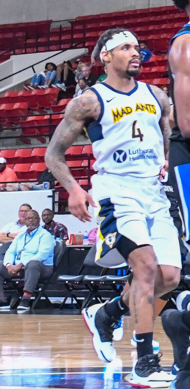 Lakeland Magic vs Fort Wayne Mad Ants. RP Funding Center. Lakeland, Fla. Dec. 10, 2019. (Photo by Tom Hagerty.)